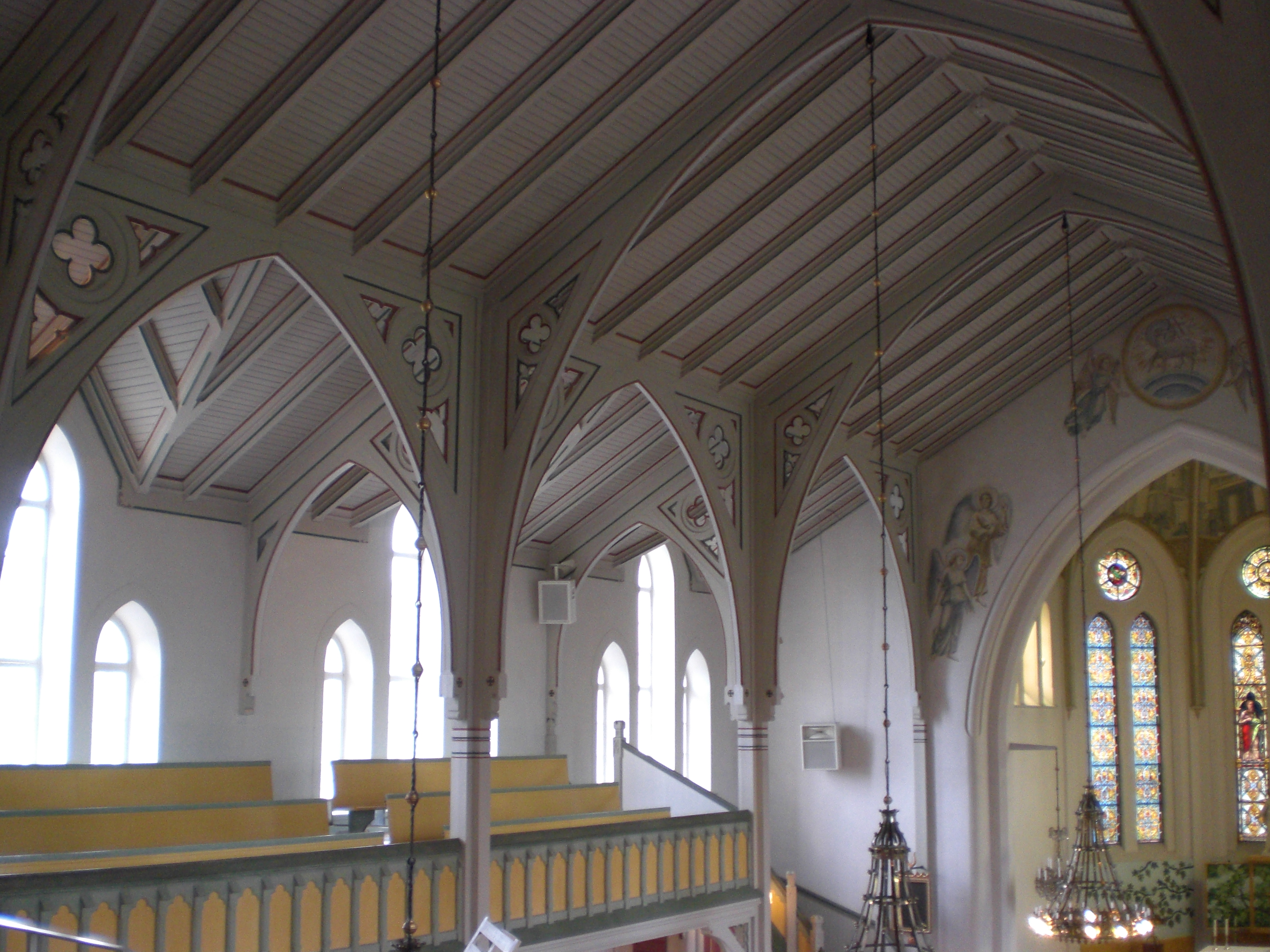 Vindeln Church ceiling, Vindeln, Sweden